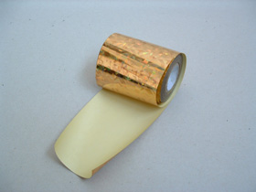 hot-stamping foil